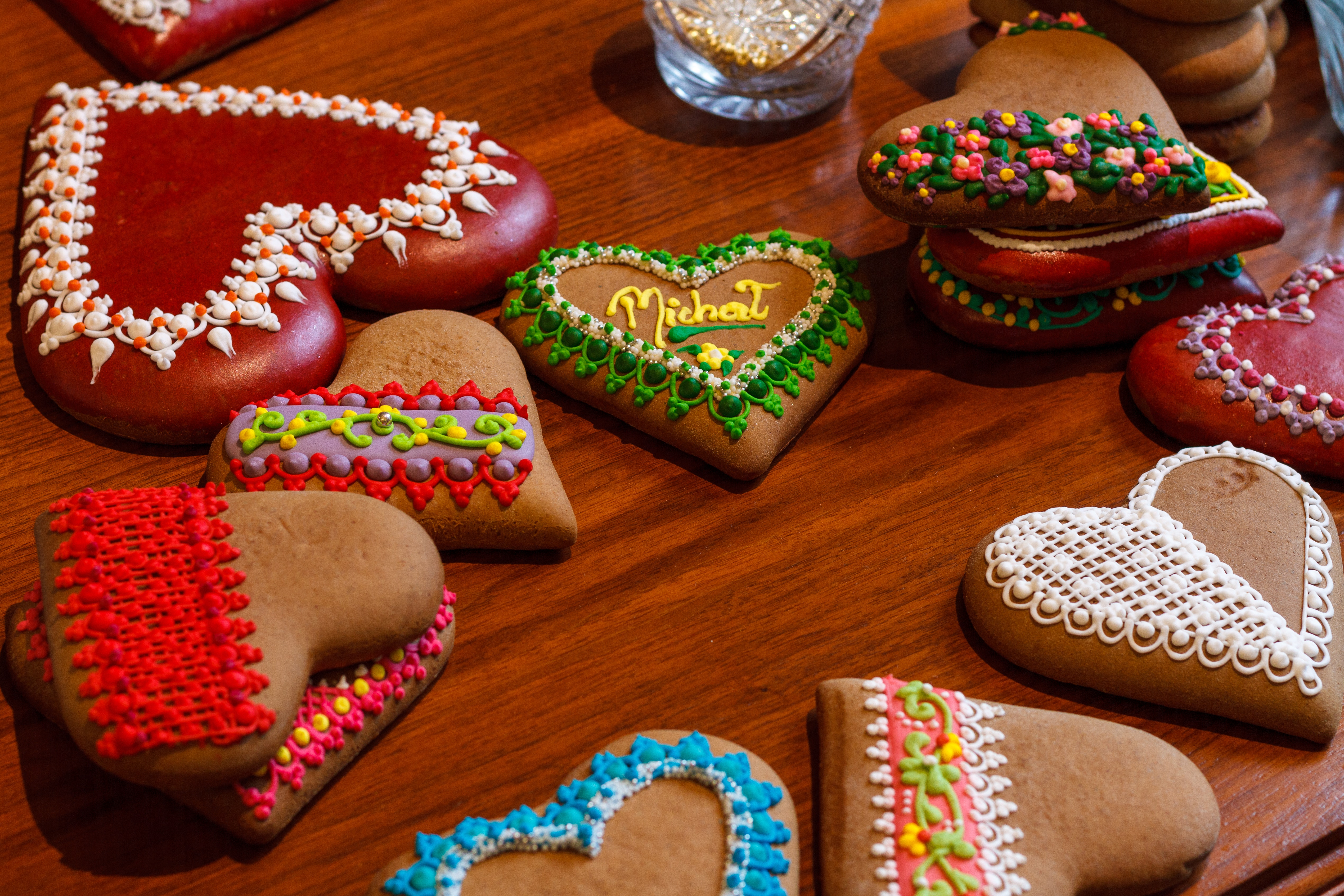 Heart shaped cookies decorated with edible frosting.